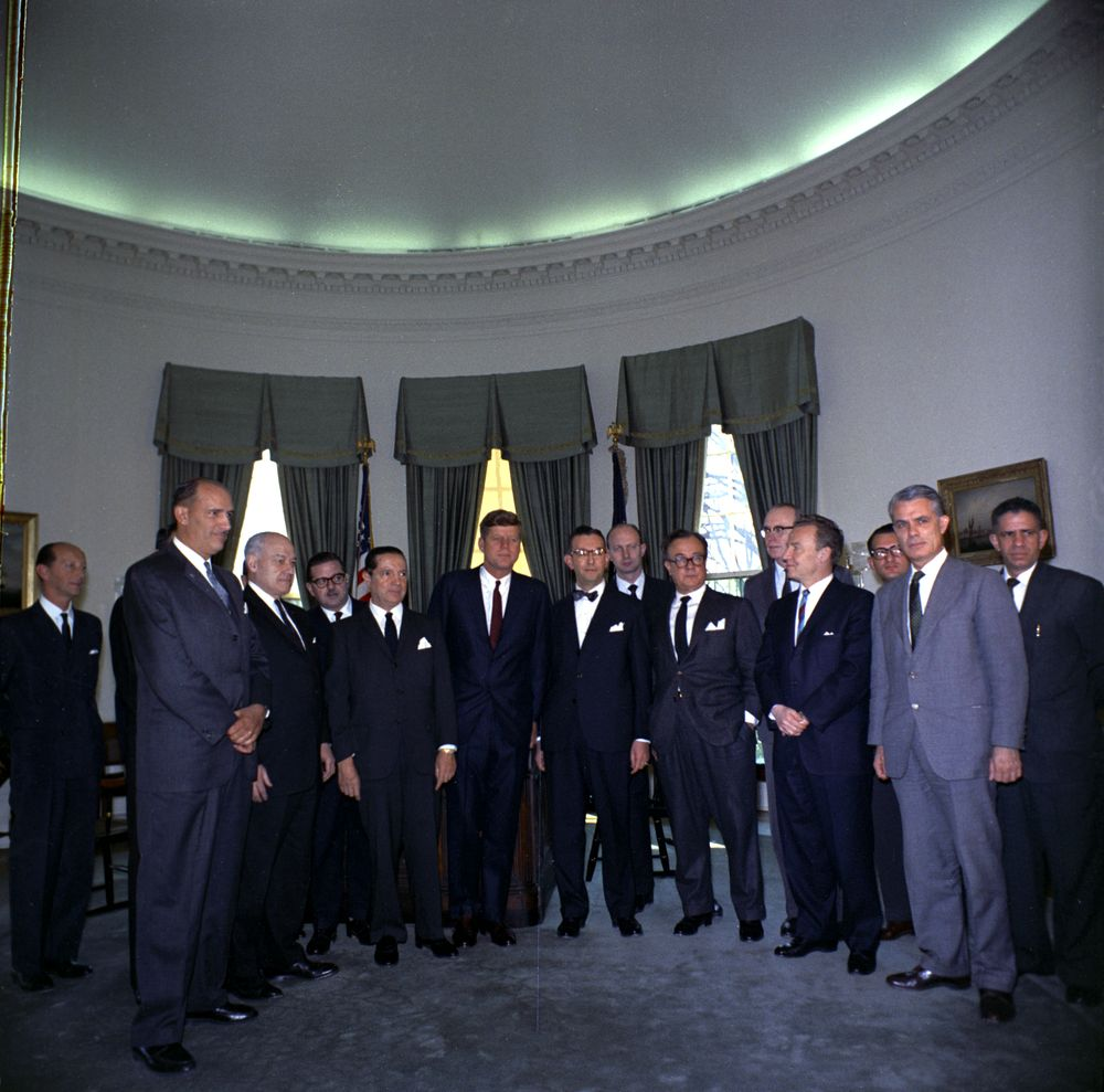 Meeting with the Organization of American States (OAS) Task Force on Education, Science & Culture.